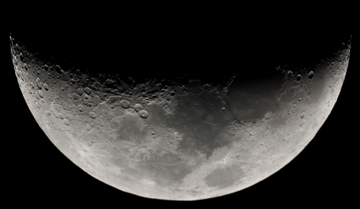 NO.7 day phase of the Moon image. TO take the picture in Longjing Township ,Taichung County of Taiwan.